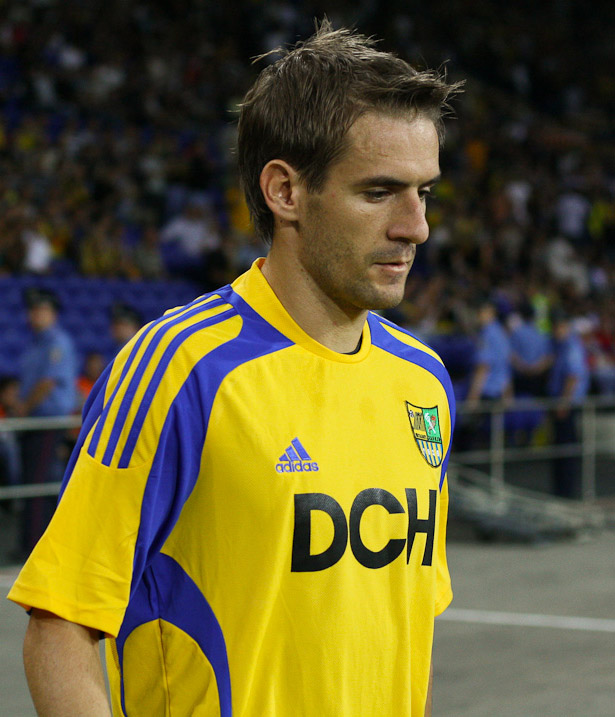 Marko Devic